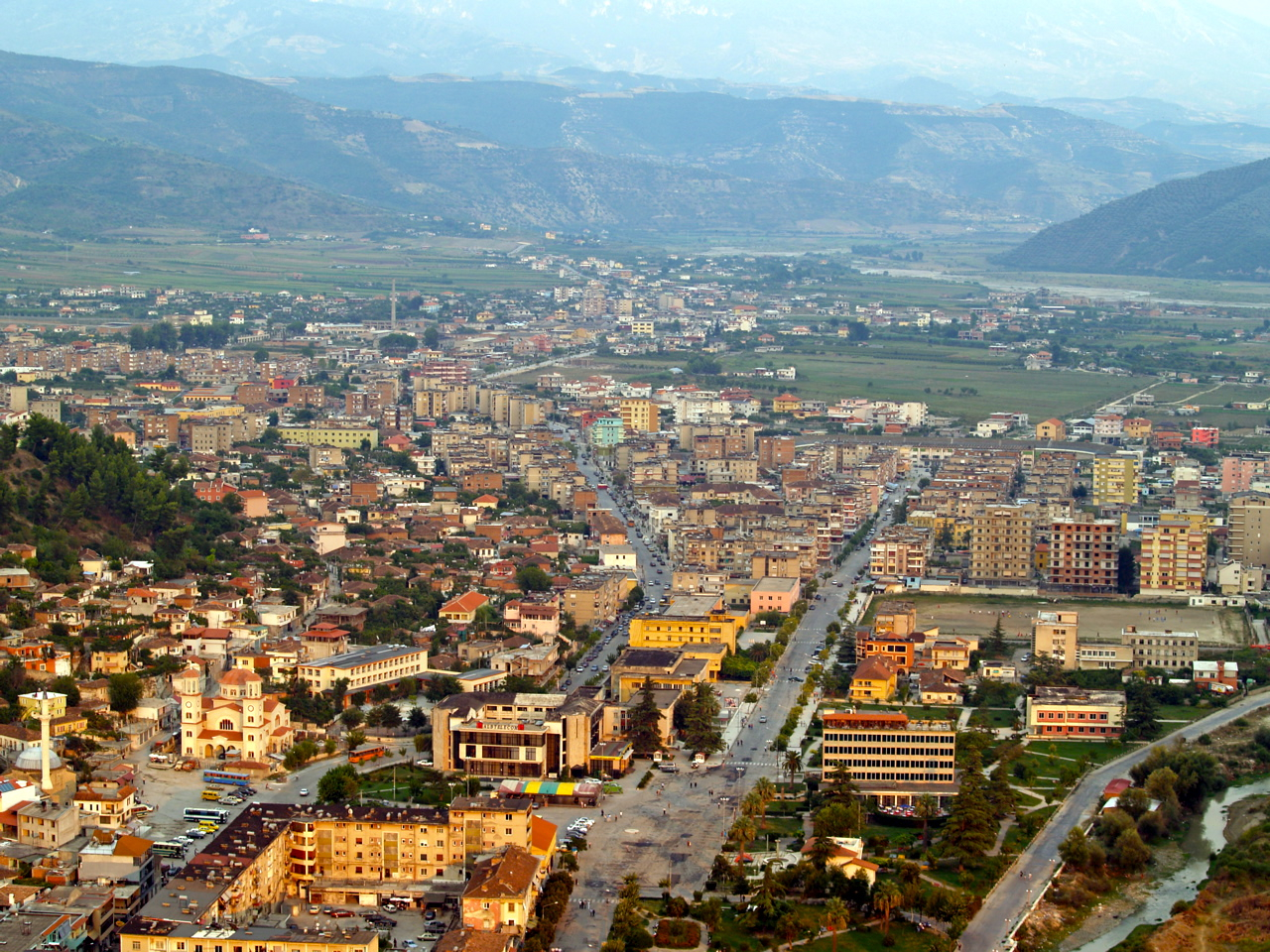 The city center of Berat at sunset seen from the castle